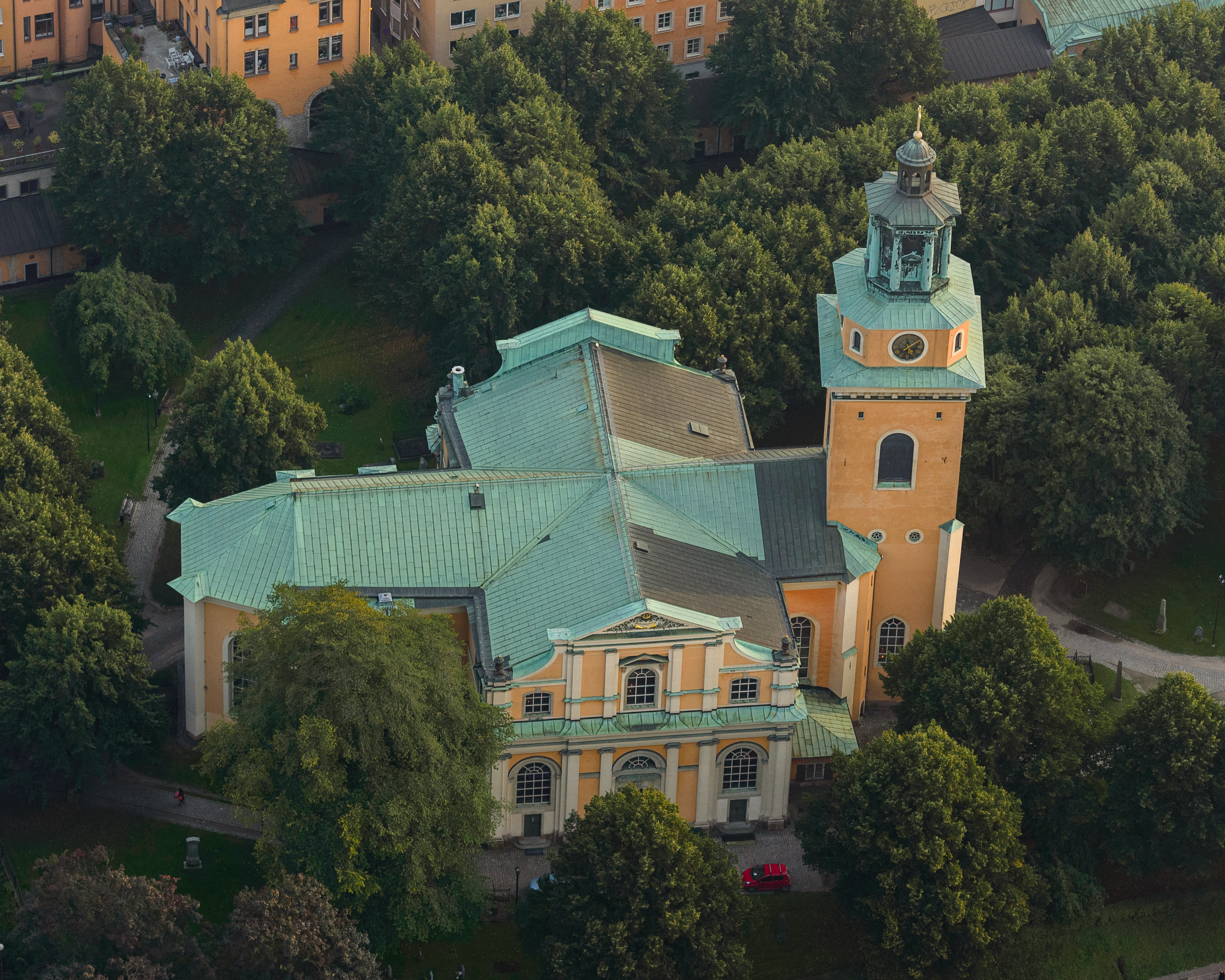 Maria Magdalena kyrka (church)